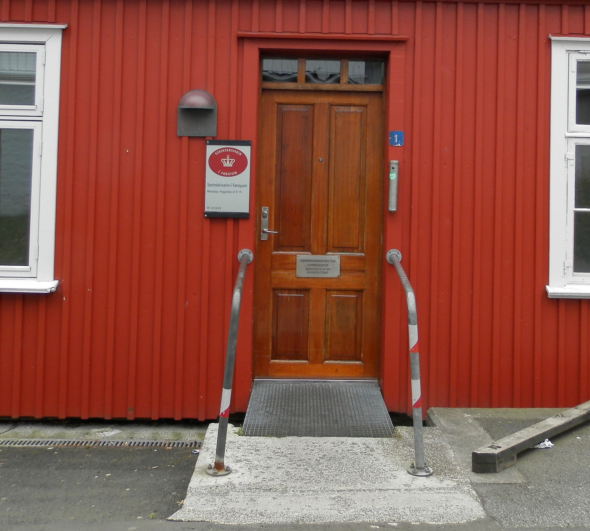 The Court of the Faroe Islands. Sorinskrivarin. C. Pløyensgøta 1, Tórshavn.